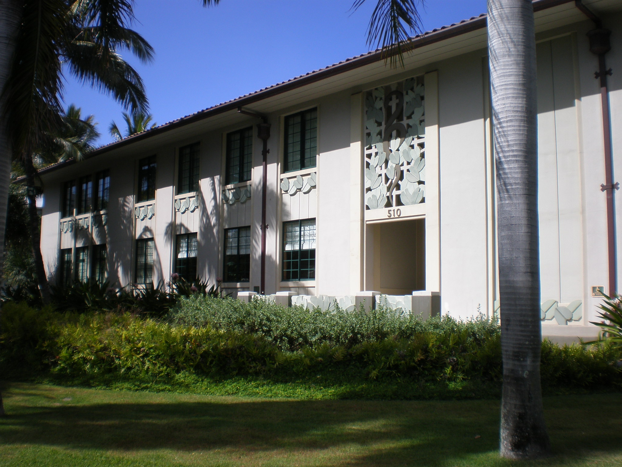 Mabel Smyth Memorial Building, now Queen's Medical Center Conference Center, 510 S. Beretania Street, Honolulu, Hawaii, on National Register of Historic Places, built 1941, architect C.W. Dickey, renovated 1999